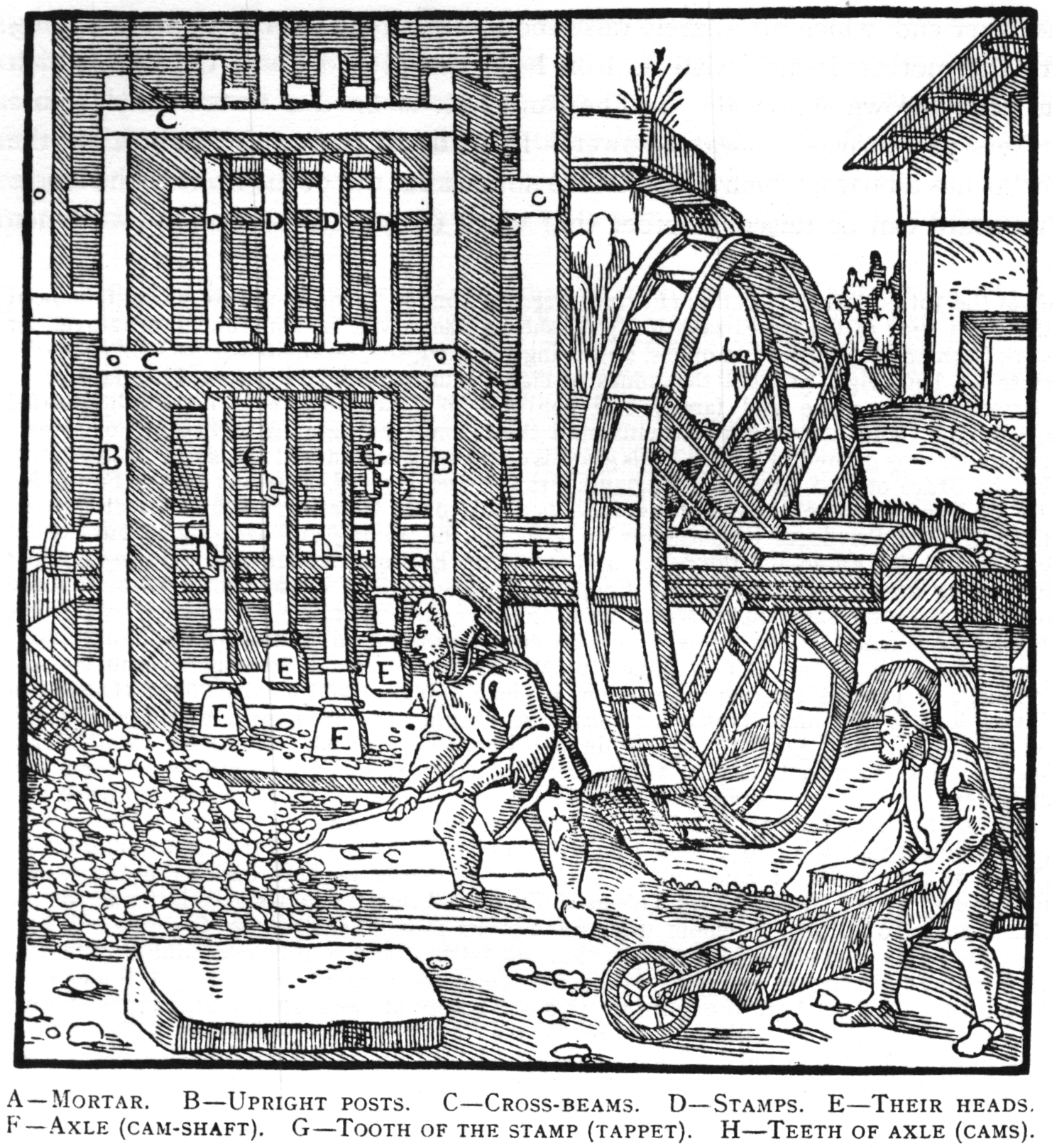 Woodcut illustration from De re metallica by Georgius Agricola. This is a 300dpi scan from the 1950 Dover edition of the 1913 Hoover translation of the 1556 reference. The Dover edition has slightly smaller size prints than the Hoover (which is a rare book). The woodcuts were recreated for the 1913 printing. Filenames (except for the title page) indicate the chapter (2, 3, 5, etc.) followed by the sequential number of the illustration.